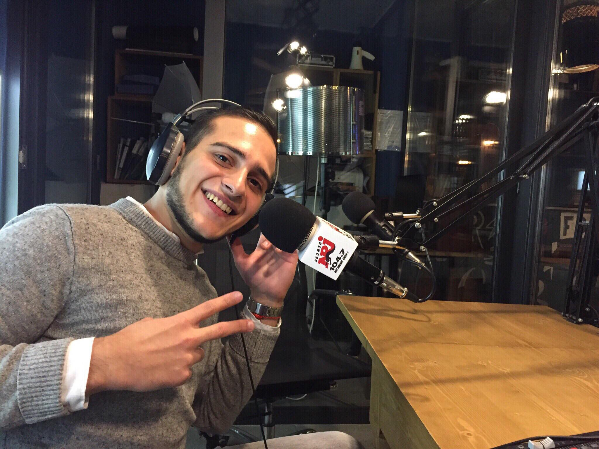 Gigi Adamashvili at Radio NPR in 2017